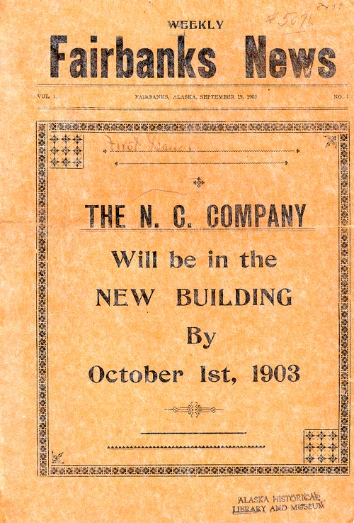 The front page of the Weekly Fairbanks News, the first newspaper published in Fairbanks, Alaska, and the direct ancestor to the Fairbanks Daily News-Miner.